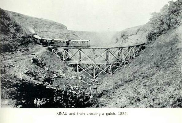 KINAU and narrow gauge train crossing a gulch in Hawaii, KINAU and narrow gauge train crossing a gulch in Hawaii, KINAU and narrow gauge train crossing a gulch in Hawaii, 1882